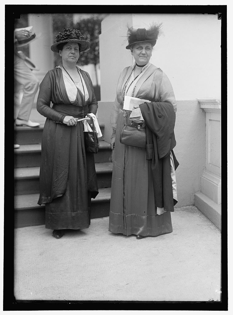 Harris & Ewing/LOC hec.07332. Lillian Wald, and Jane Addams, 1916